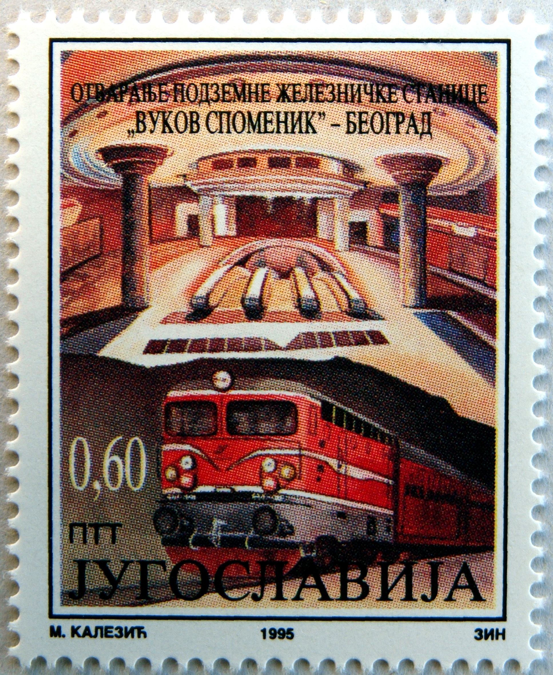 Inauguration of the Vukov spomenik railway underground in the Belgrade railway junction